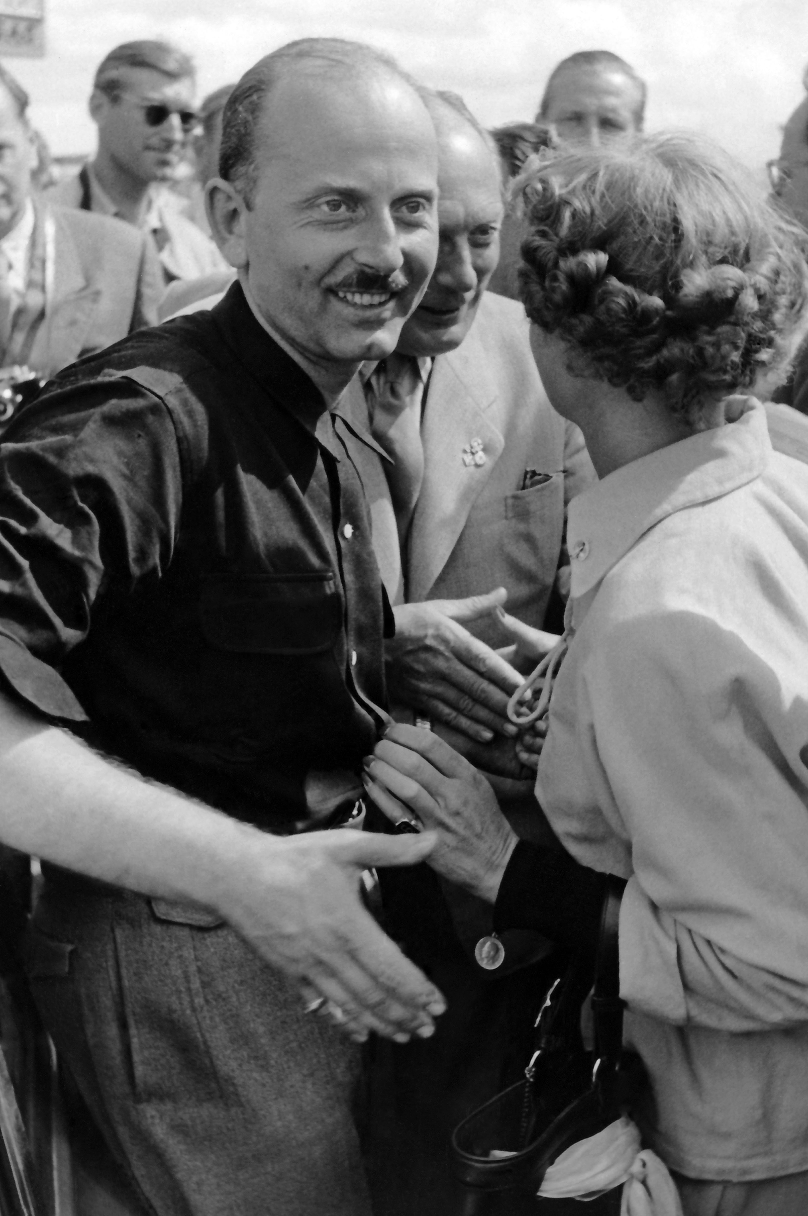 Max Nathan, Winner of the Nürburgring sportsd car race 1.5 liters in 1952